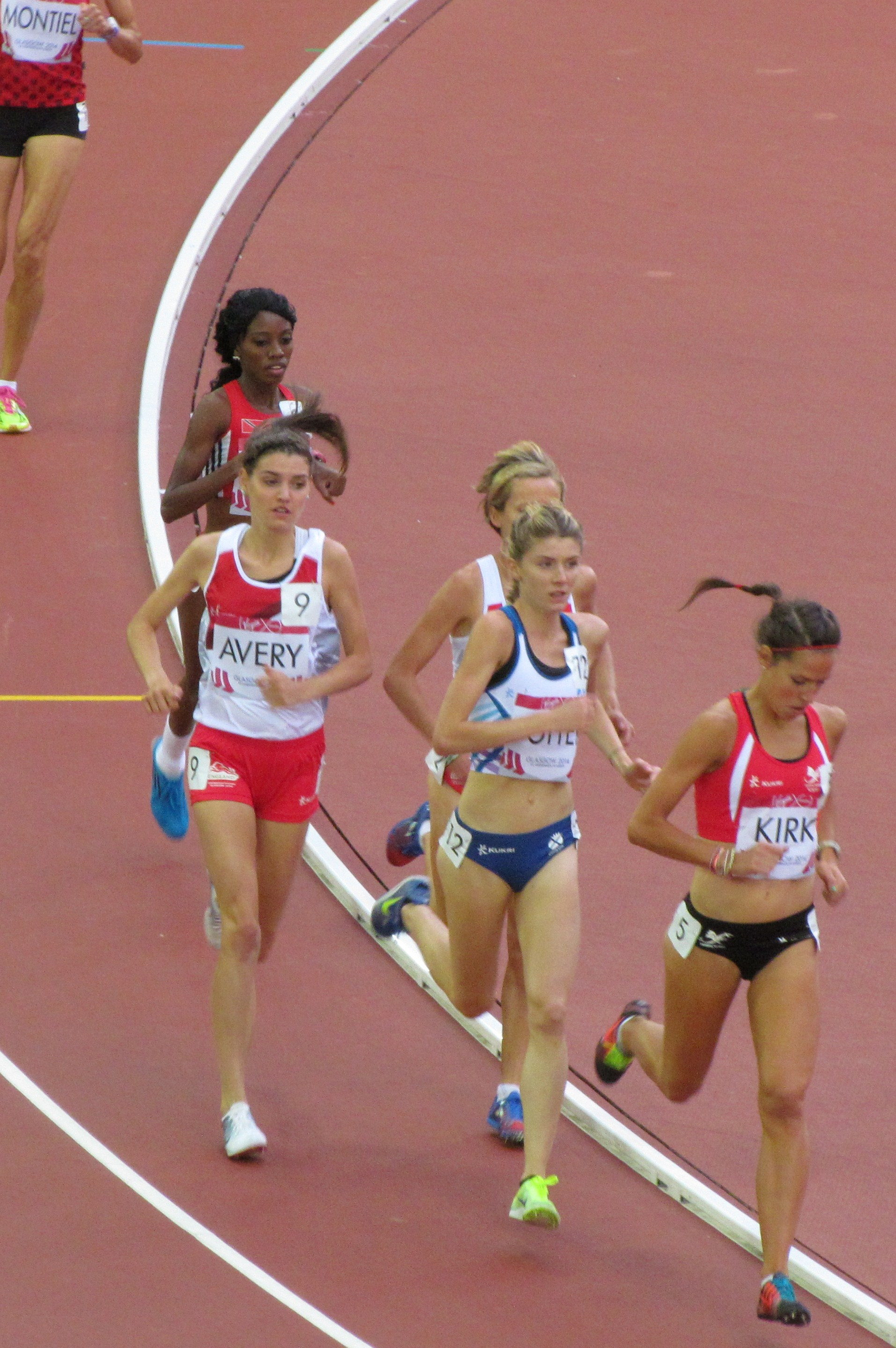 10,000 m 2014 Commonwealth Games. Kate Avery, Beth Potter, Elinor Kirk, Tonya Nero, Emma Montiel